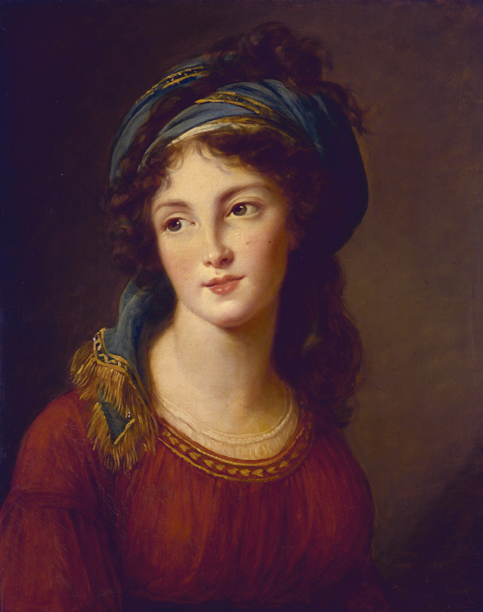 Portrait of Aglaé de Polignac (1768-1803), daughter of Marie Antoinette's great friend the duchesse de Polignac; wife of the Duke of Gramont and known as Guichette